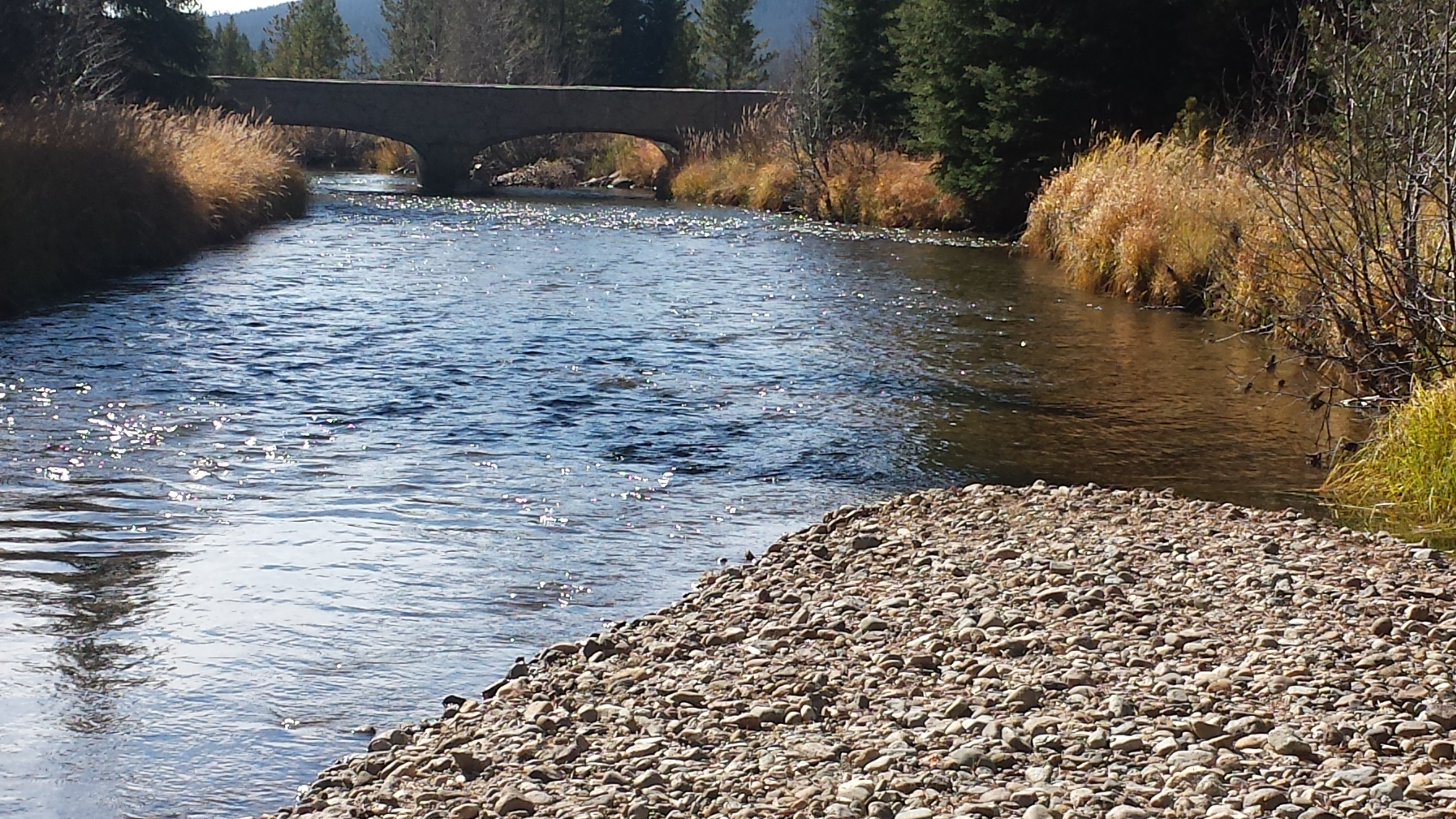 Colorado River at the Coyote Valley Trail head, Kawuneeche Valley, Rocky Mountains, Colorado, USA